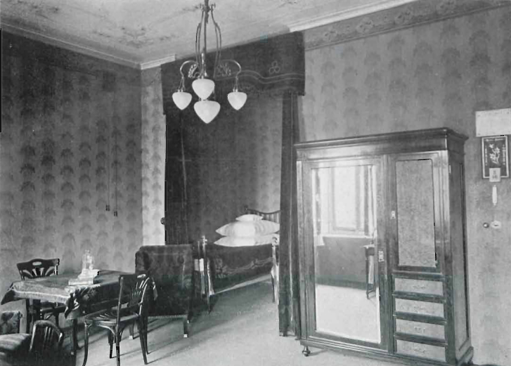 Hotel Savoy in Warsaw, interior of one of the rooms Anonymous illustration from the 1906 edition of "Przegląd Techniczny" weekly